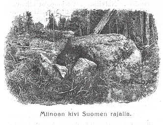 Miinoa stone, old border stone, in Kuhmo, Finland on the border between Finland and Russia